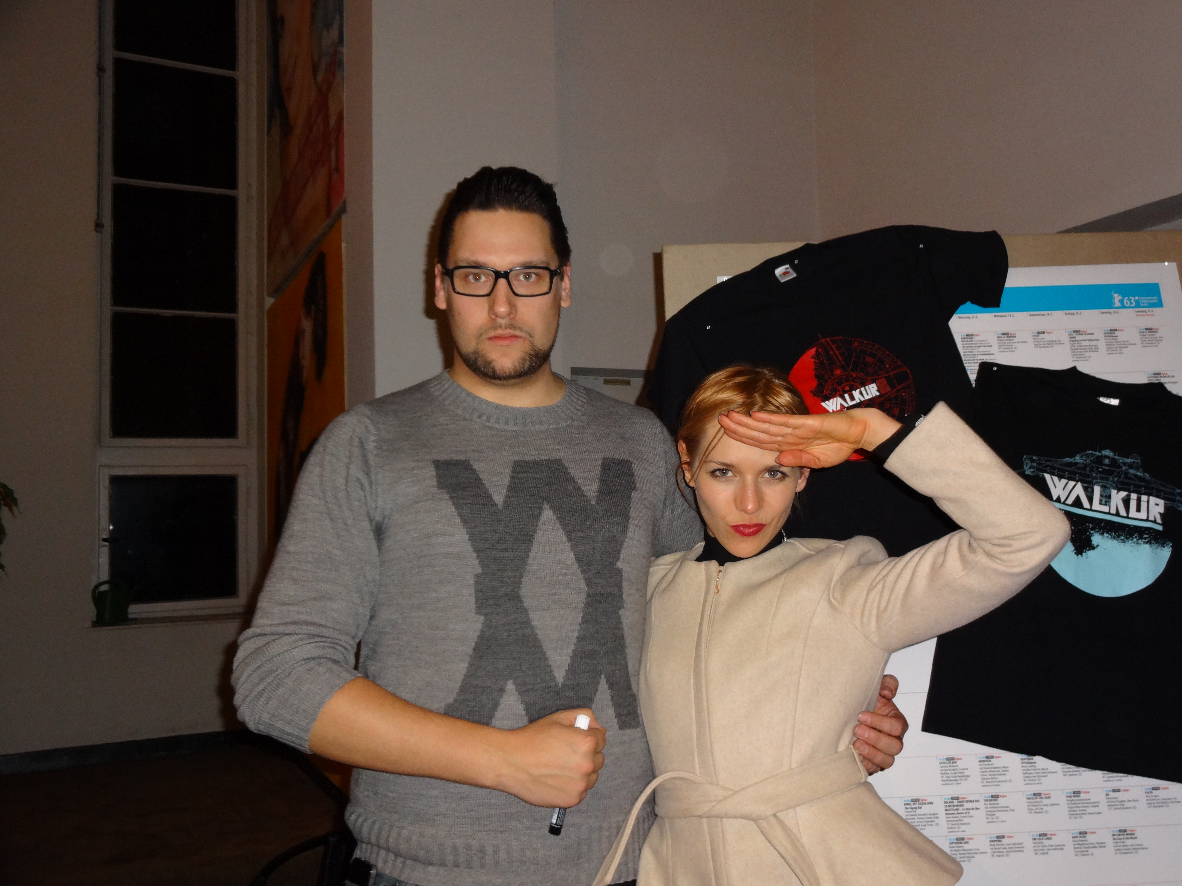 Timo Vuorensola, director of the movie Iron Sky, and Julia Dietze, actress in the lead role in the same film, making an Iron Sky-related pose. Photo taken at the Iron Sky director's cut screening at the Filmtheater am Friedrichshain, Berlin, Germany on 2013-01-10. Permission for publication was granted by the two.